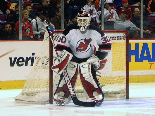 Martin Brodeur against the Philadelphia Flyers in March 2003